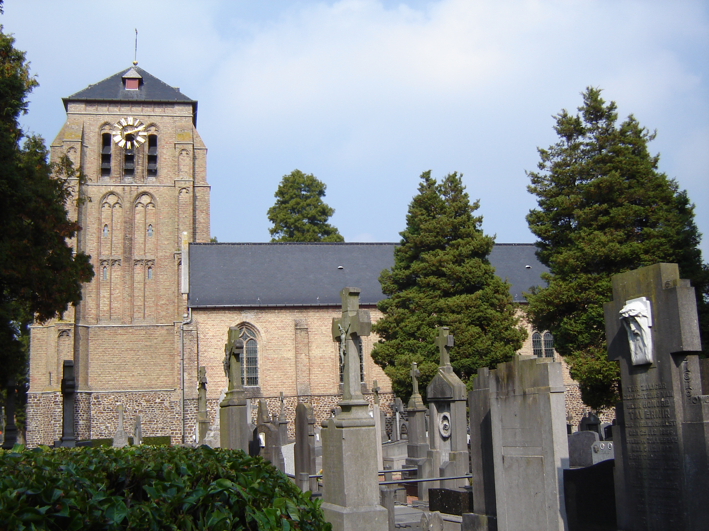 Church of Saint Catherine in Zillebeke. Zillebeke, Ieper, West Flanders, Belgium